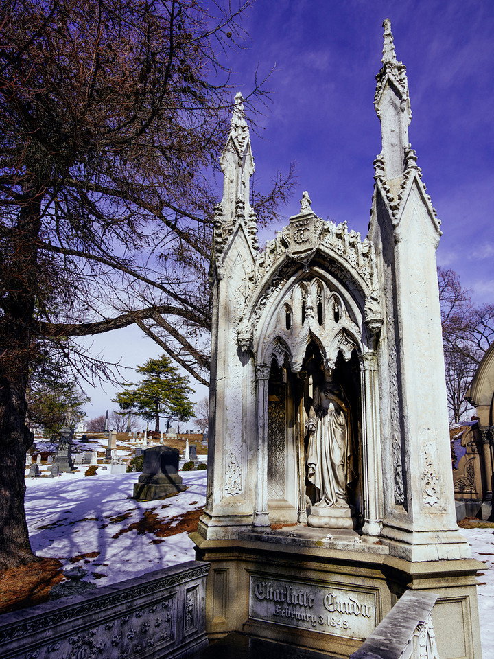 Angle view of burial marker of Charlotte Canda, Green-Wood Cemetery, Brooklyn, New York, United States